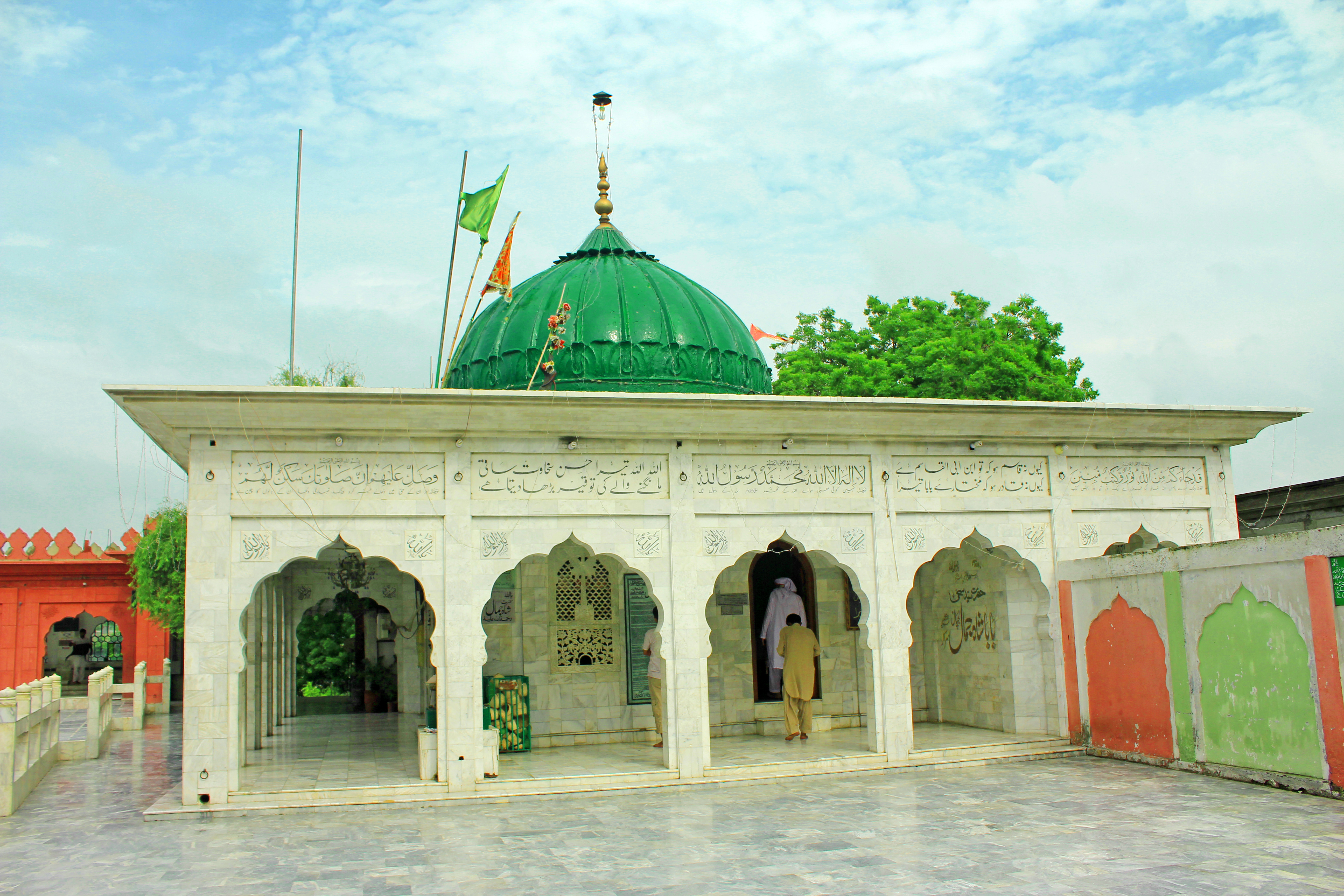 Tomb of Shah Jamal This is a photo of a monument in Pakistan identified as the PB-P-112